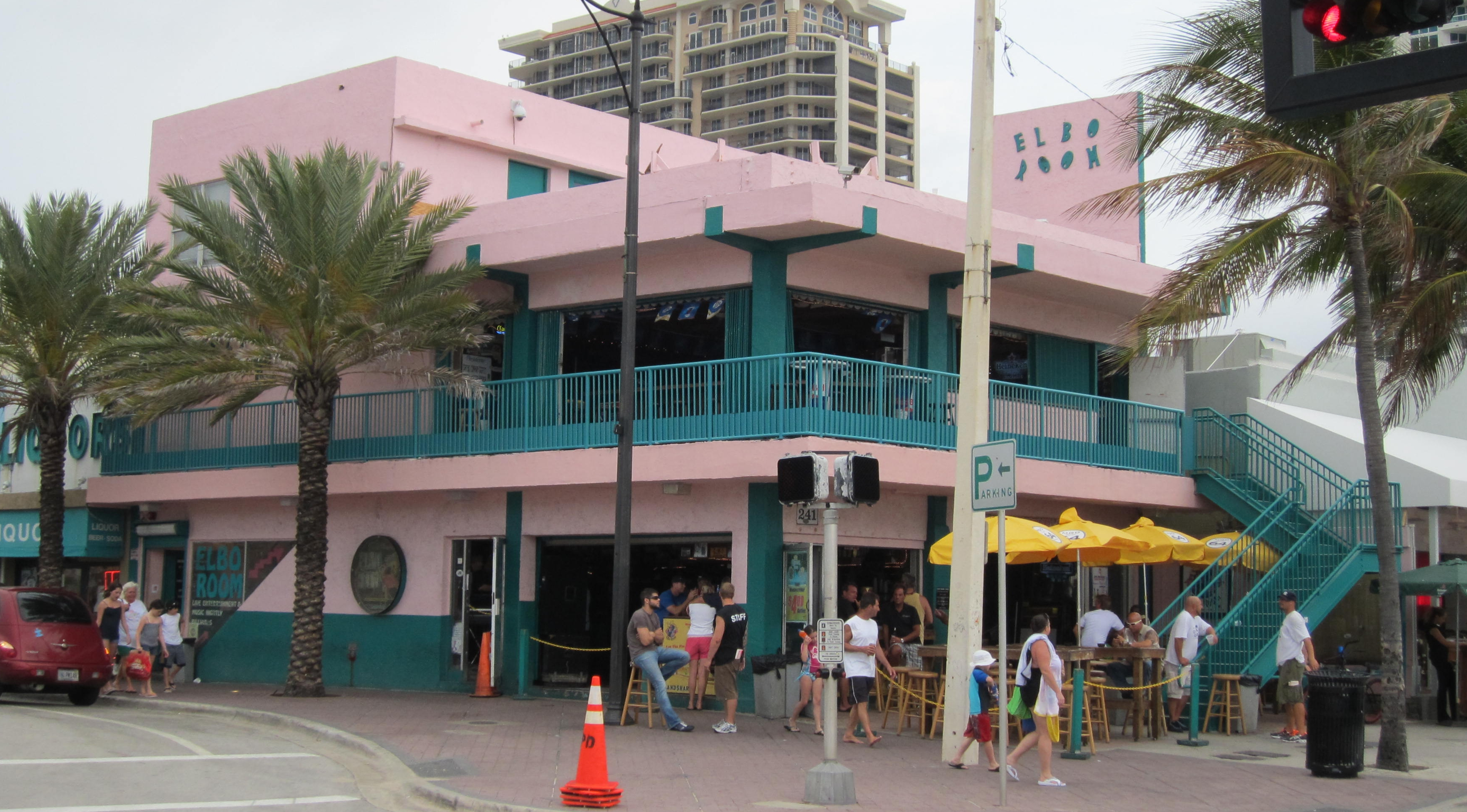 Elbo Room, 241 South Fort Lauderdale Beach Boulevard (Florida State Road A1A), Fort Lauderdale, Florida.